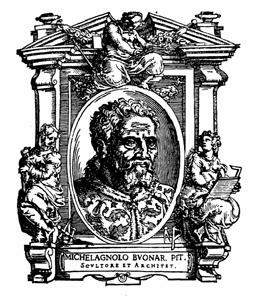 Illustratio from "Le Vite" by Giorgio Vasari, edition of 1568. For the artist portrayed see filename